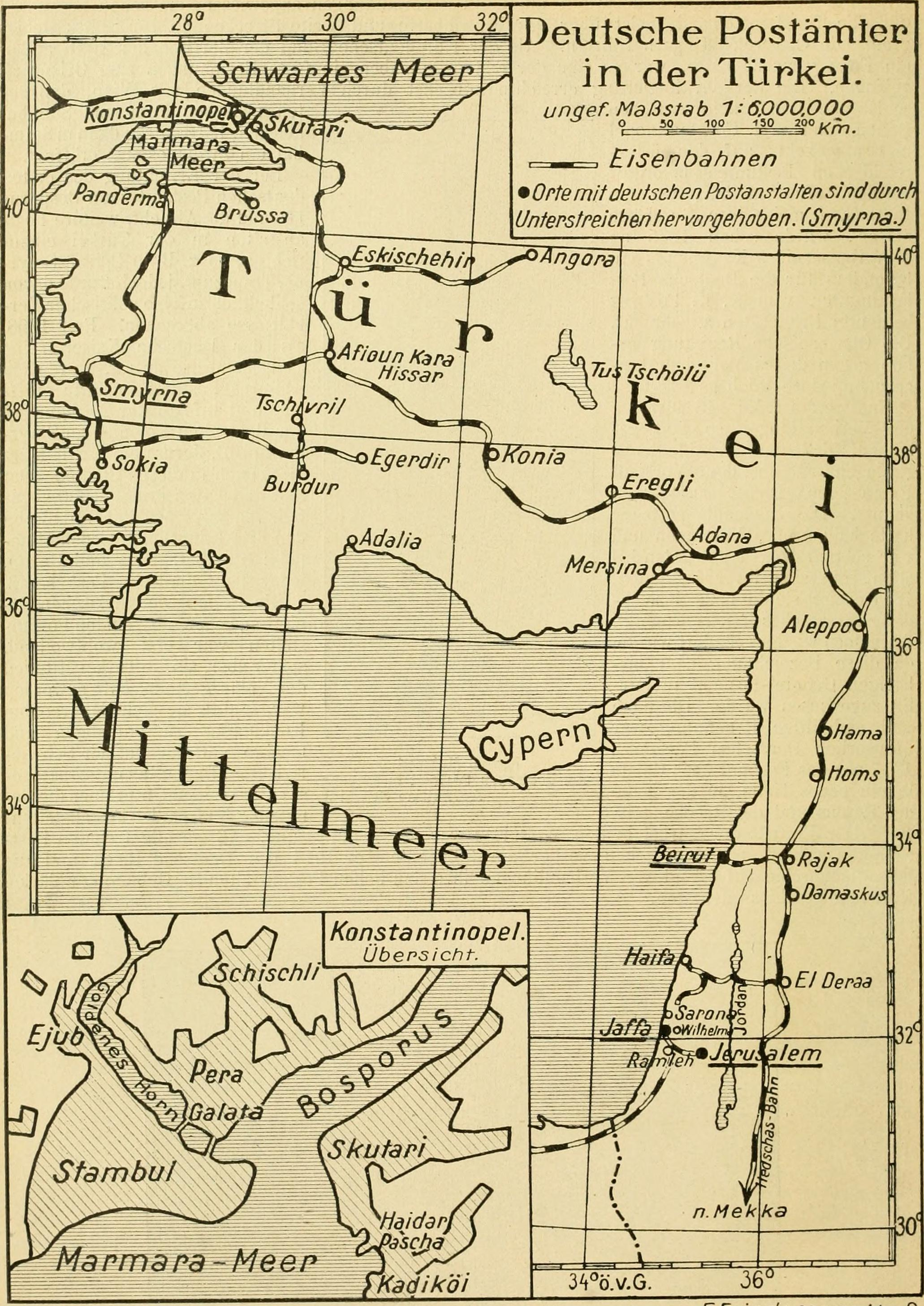 Map showing the location of German post offices in the Ottoman Empire before WWI (town names are underlined)